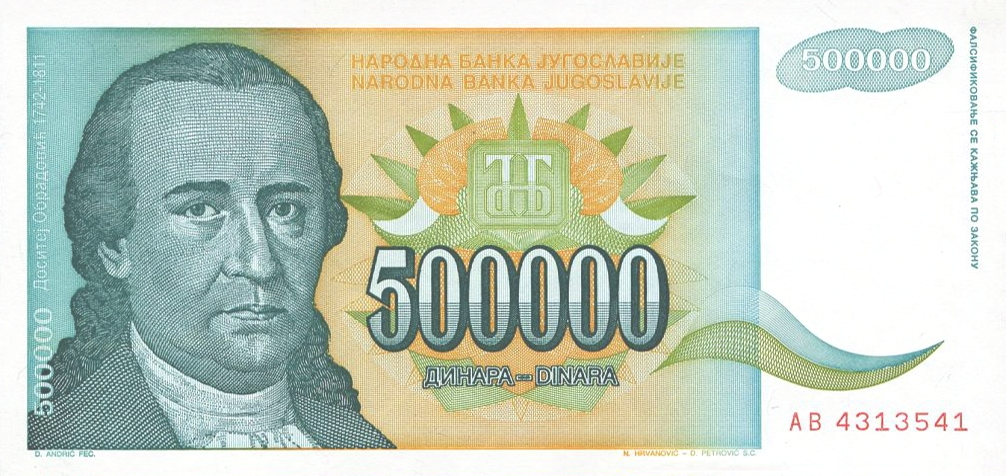 500000 Yugoslav dinars (1993)